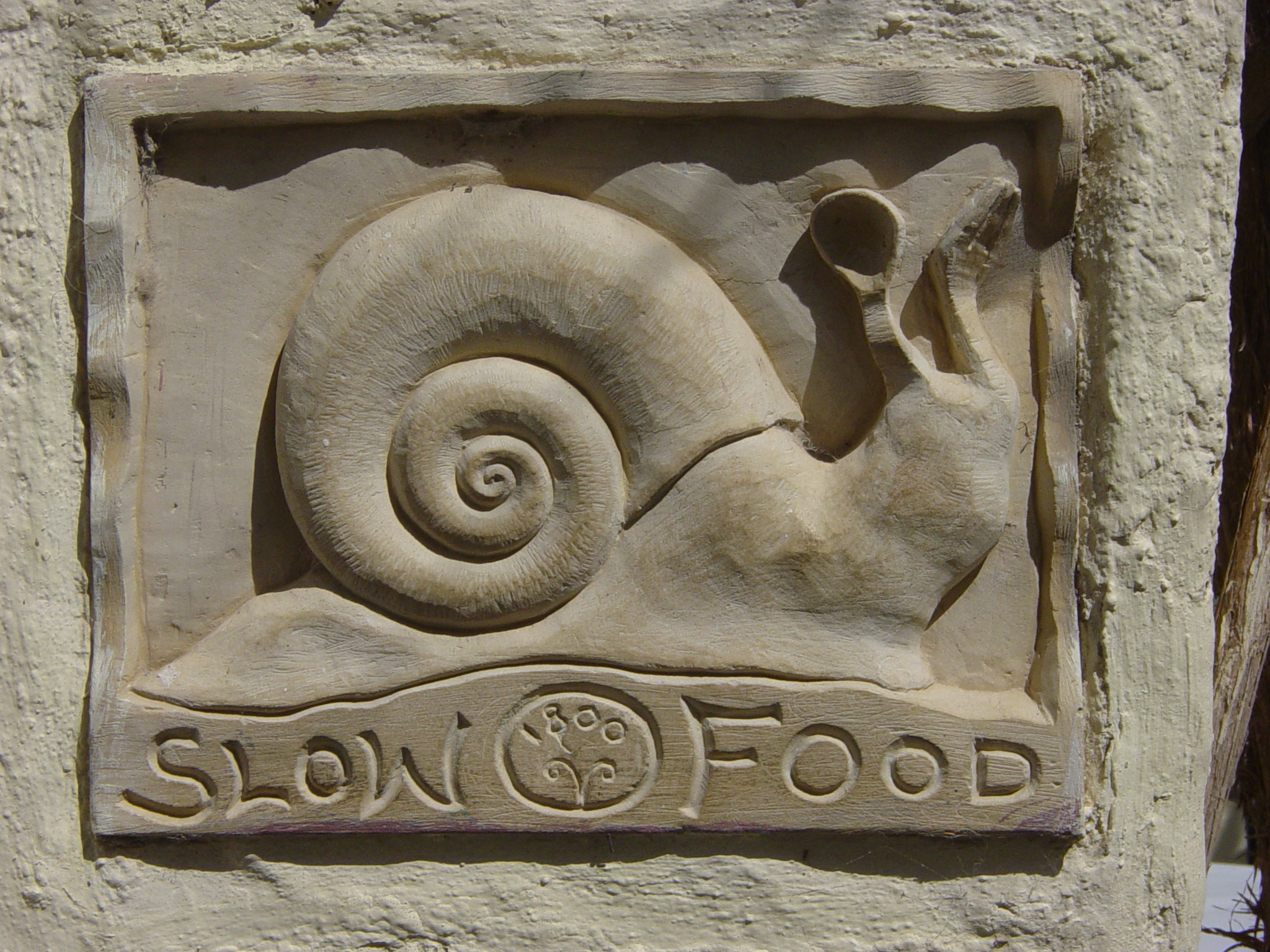 Image own work, Content on public display on a wall surrounding a restaurant in Santorini